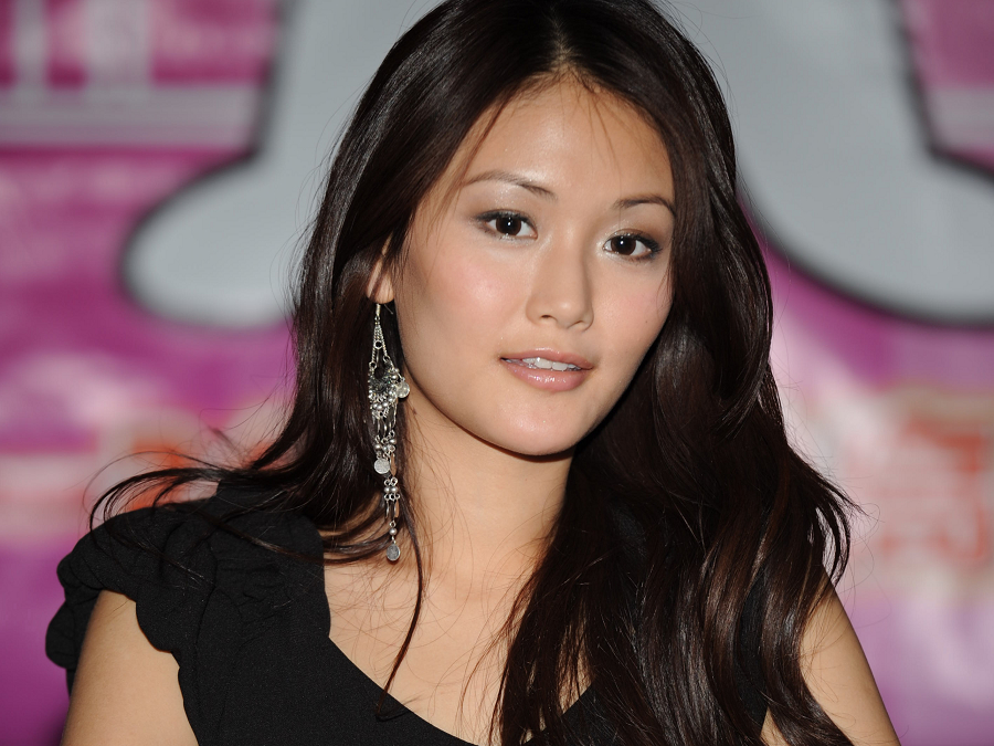 A.Lin 裴殷